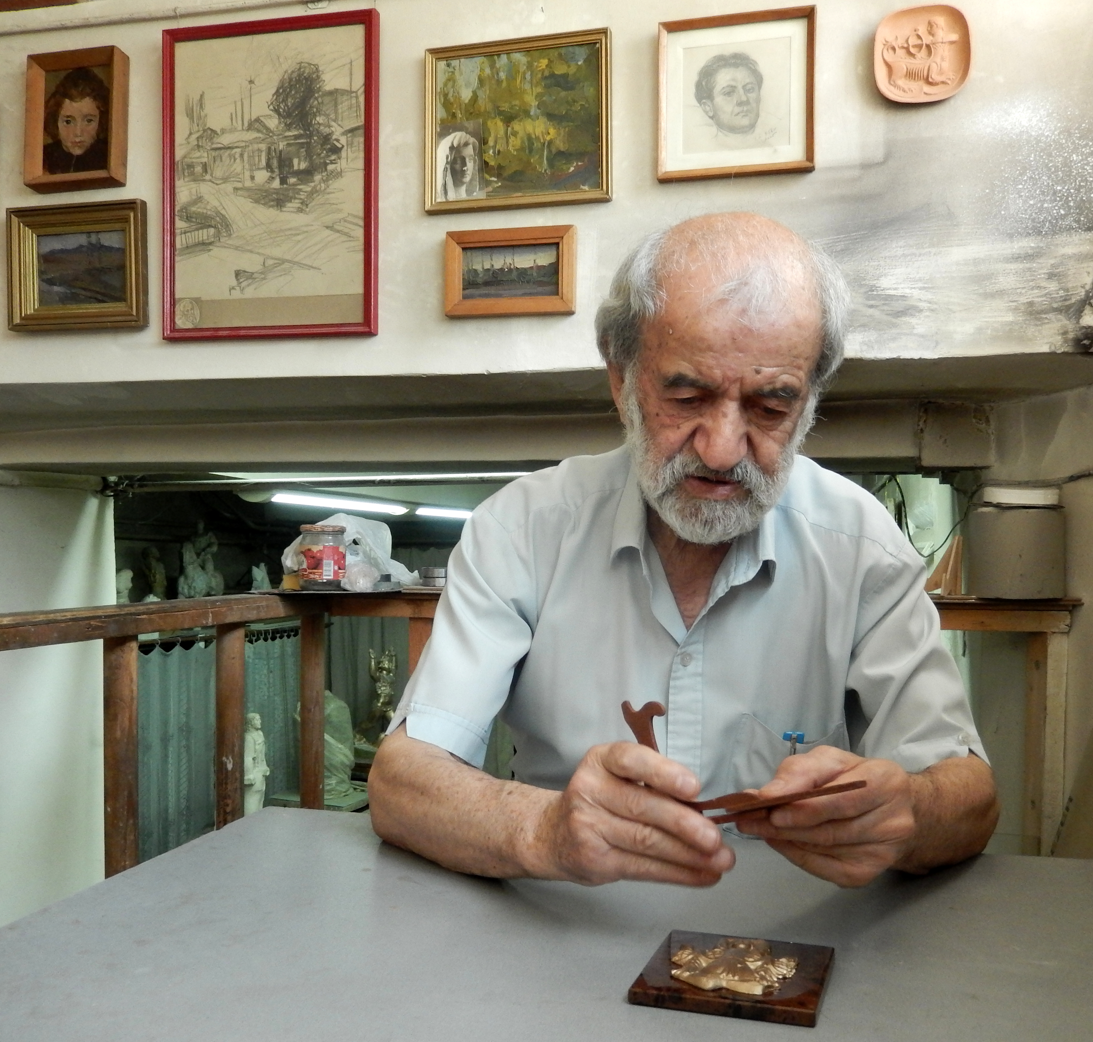 Ararat Hovsepian (1928-2017) at his studio, Kochar 13, Yerevan